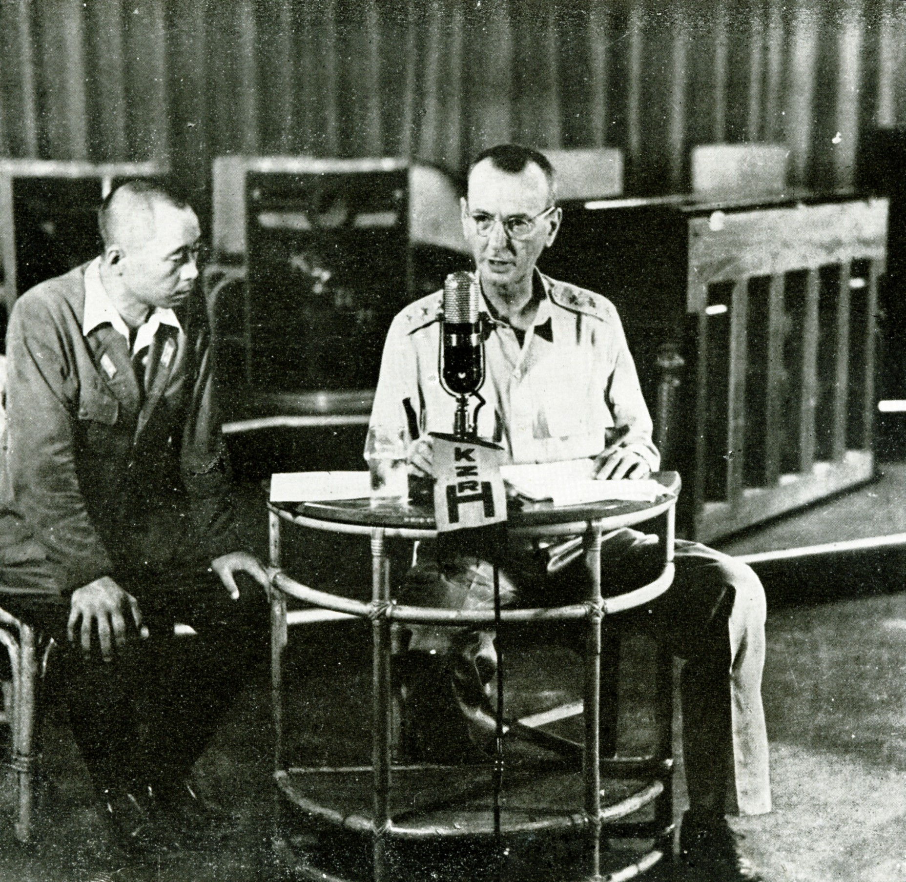 Jonathan Mayhew Wainwright IV, speaking his feeling under Imperial Japanese army